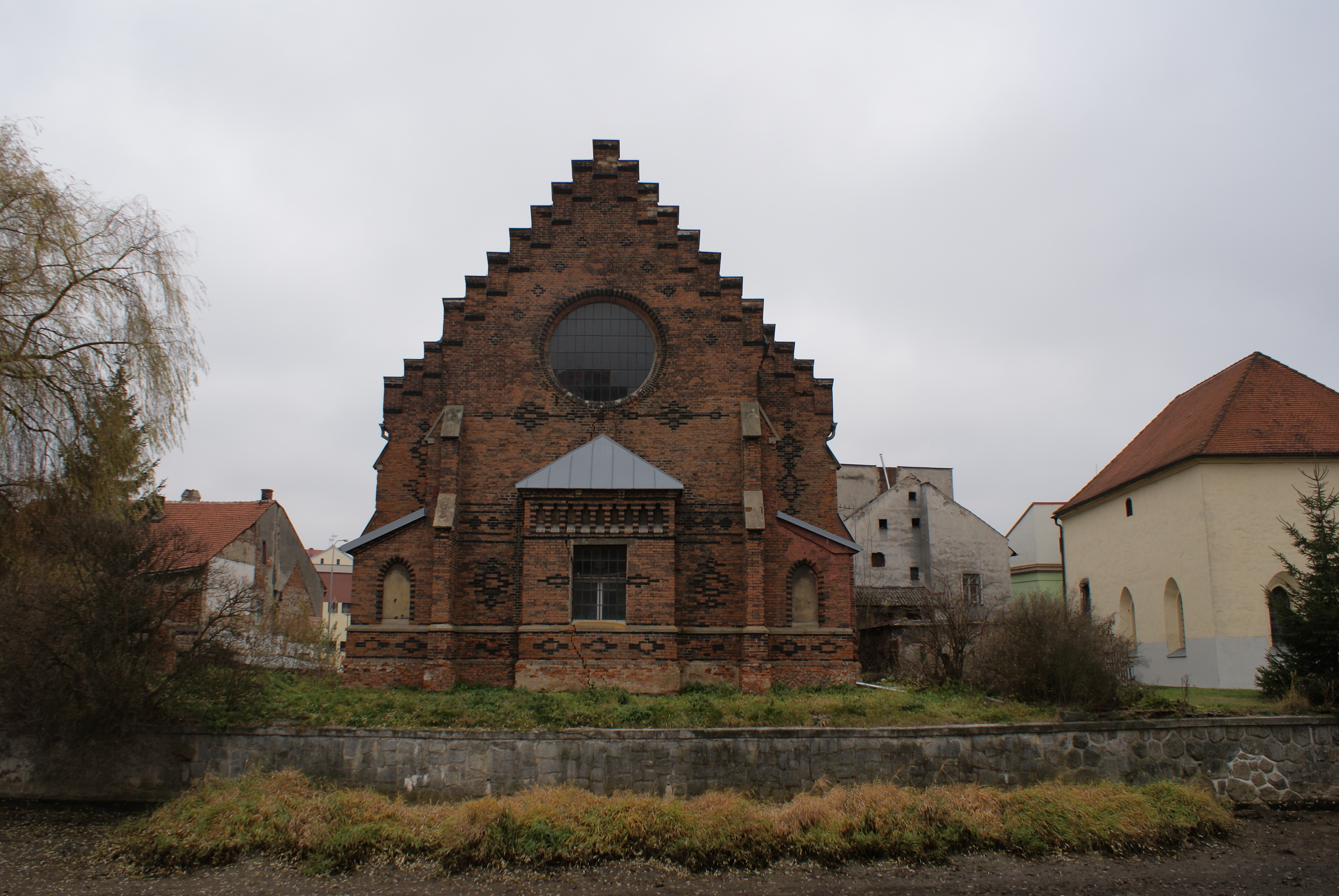 Velké Meziříčí, a town in Žďár nad Sázavou District, Czech Republic, the Old and New synagogue.